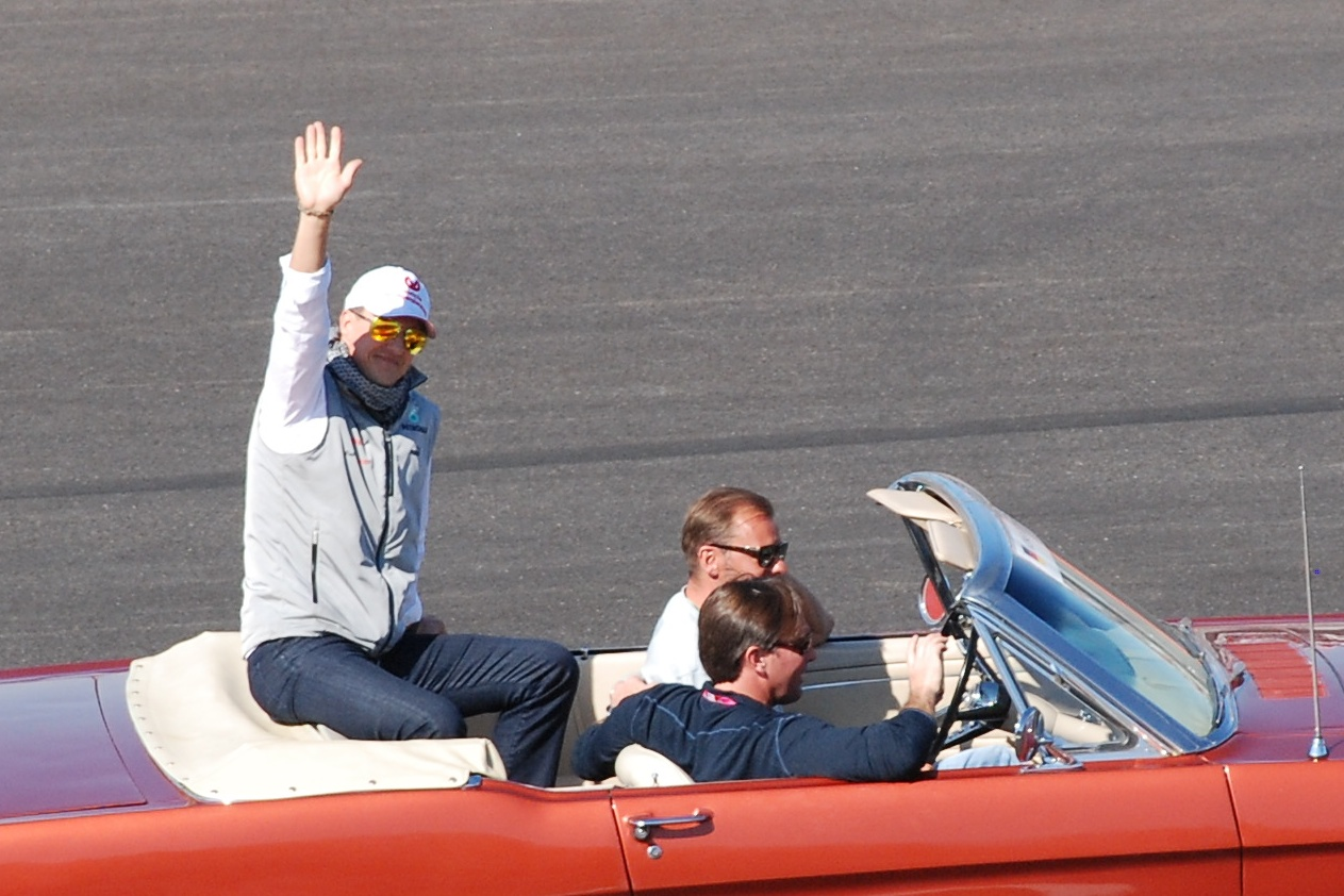 Michael Schumacher, United States Grand Prix, Austin 2012